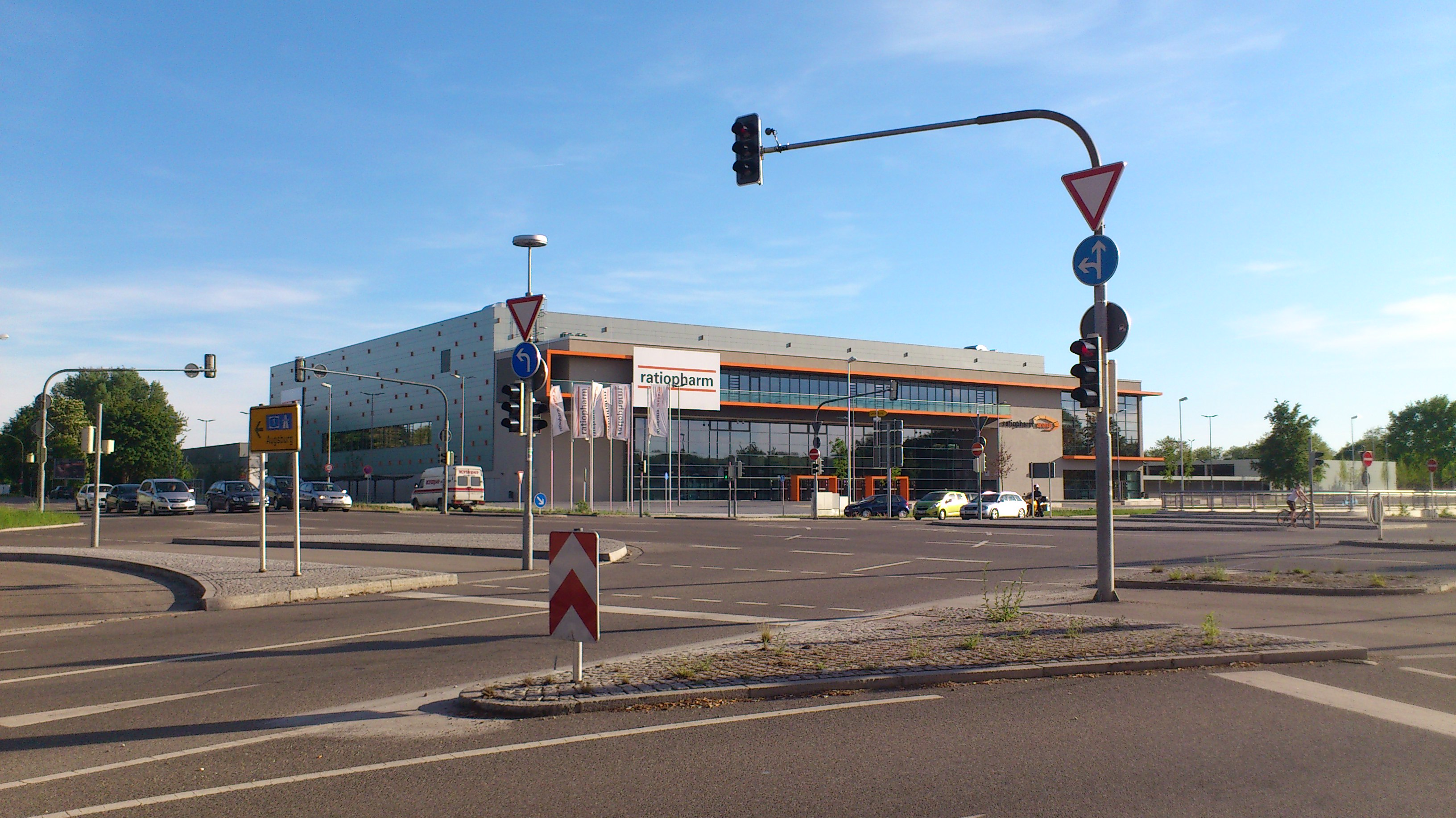 The Ratiopharm arena in May 2012